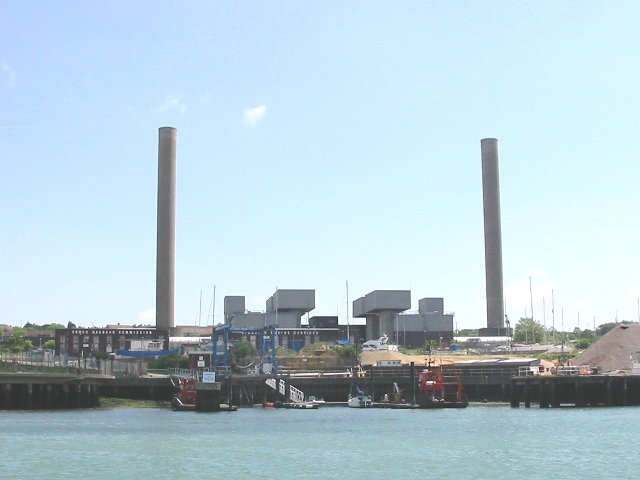 Kingston Power Station. Redundant power station now being developed by Cowes Harbour Commissioners and being used for boat storage